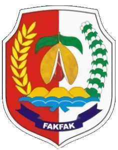 Coat of Arms (Lambang) of Regency (Kabupaten) Fak-fak, Provinsi Papua Barat, Indonesia